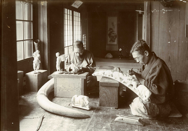 Description: "The ivory carvers Tokyo [Japan]". Photograph taken by Herbert Ponting (1870-1935). Date: c.1907 Our Catalogue Reference: COPY 1/507/192 This image is from the collections of The National Archives. Feel free to share it within the spirit of the Commons. For high quality reproductions of any item from our collection please contact our image library.